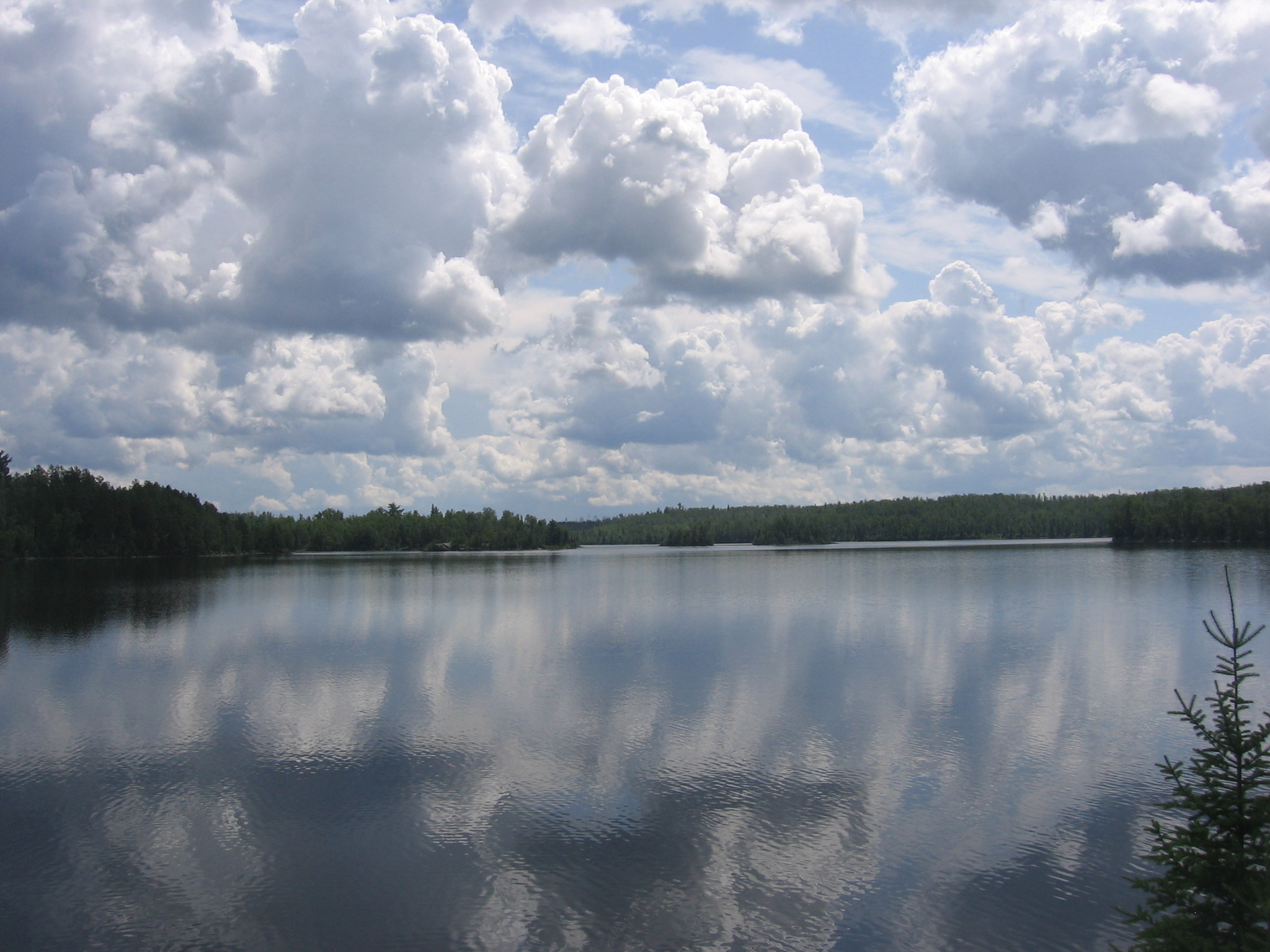 Boundary waters between Minnesota, USA (right) and Ontario, Canada (left)